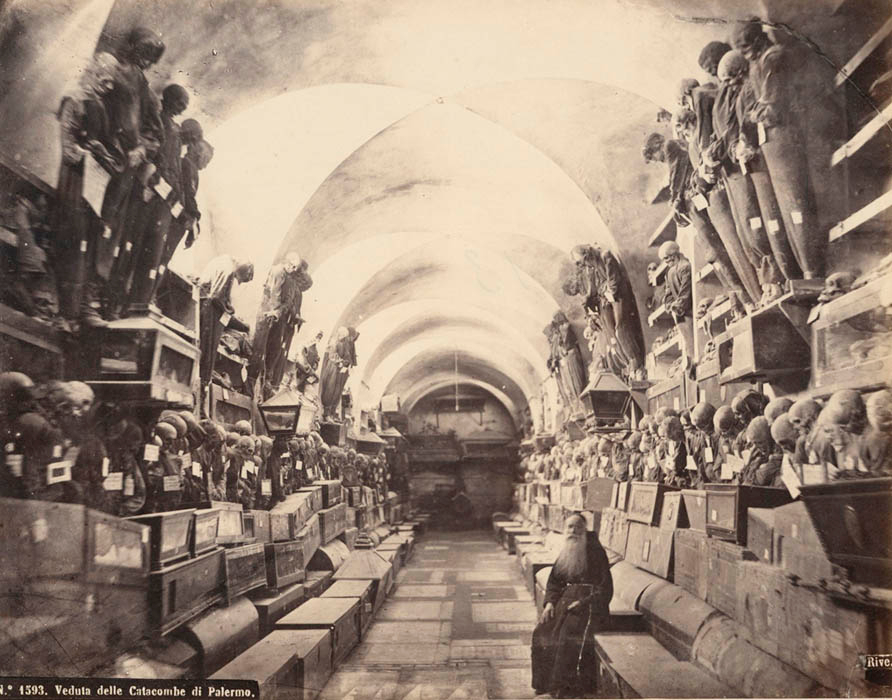 Roberto Rive (18?-1889), "View of the catacombs in Palermo". Catalogue # 1593.